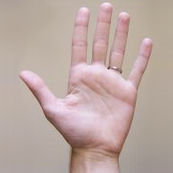 from Wikipedia in English Photo is now of Wapcaplet's hand, taken with a slightly less rubbishy digital camera. -- Wapcaplet 16:07 11 Jul 2003 (UTC)